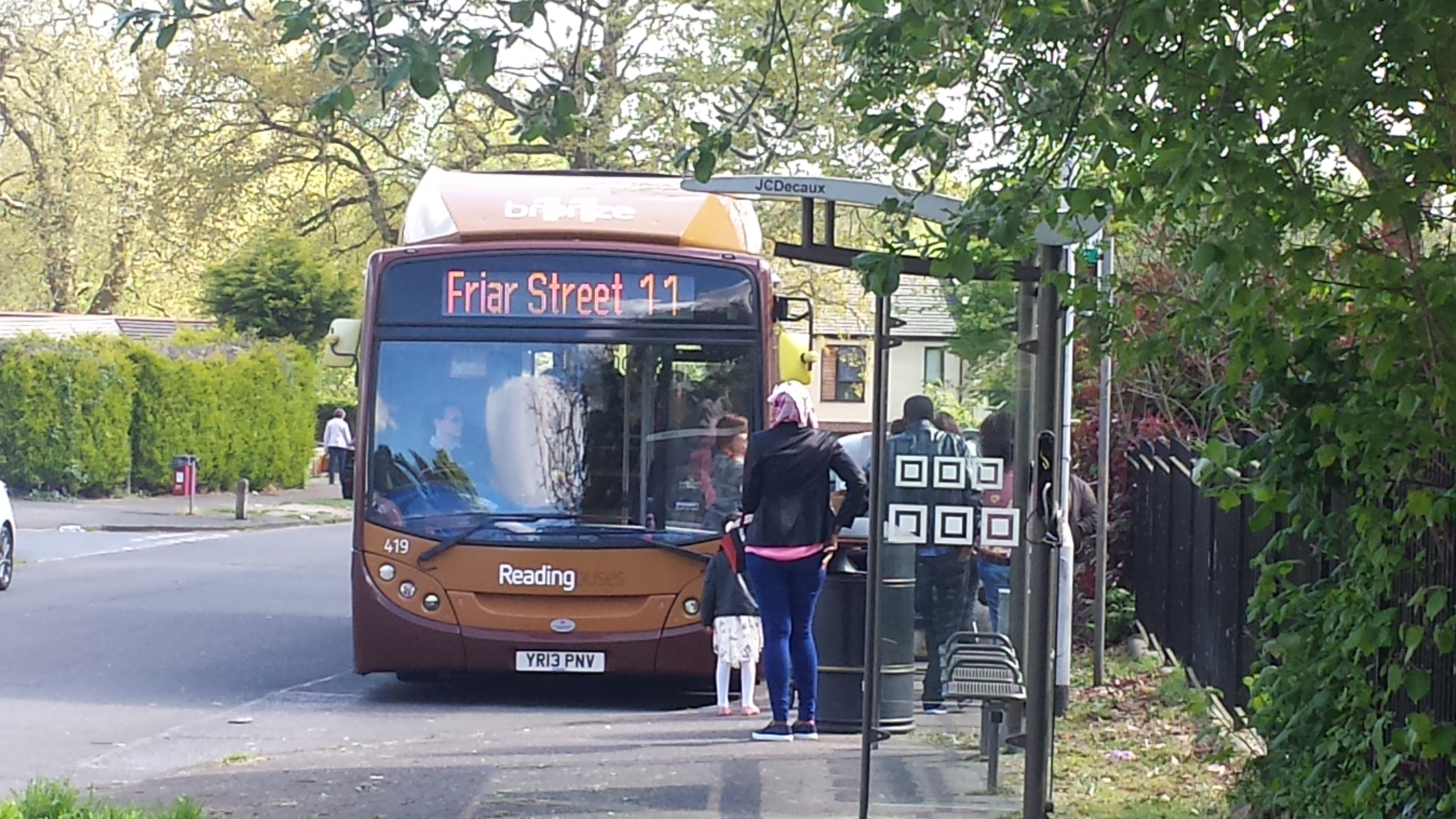 A Reading Transport bus at Coley Park bus terminus in Reading, about to return to the town centre. The bus is a biomethane-powered Scania KUB270 with Alexander Dennis Enviro300SG body, registration mark YR13 PNV, fleet number 419, in "Bronze 11" livery for route 11.